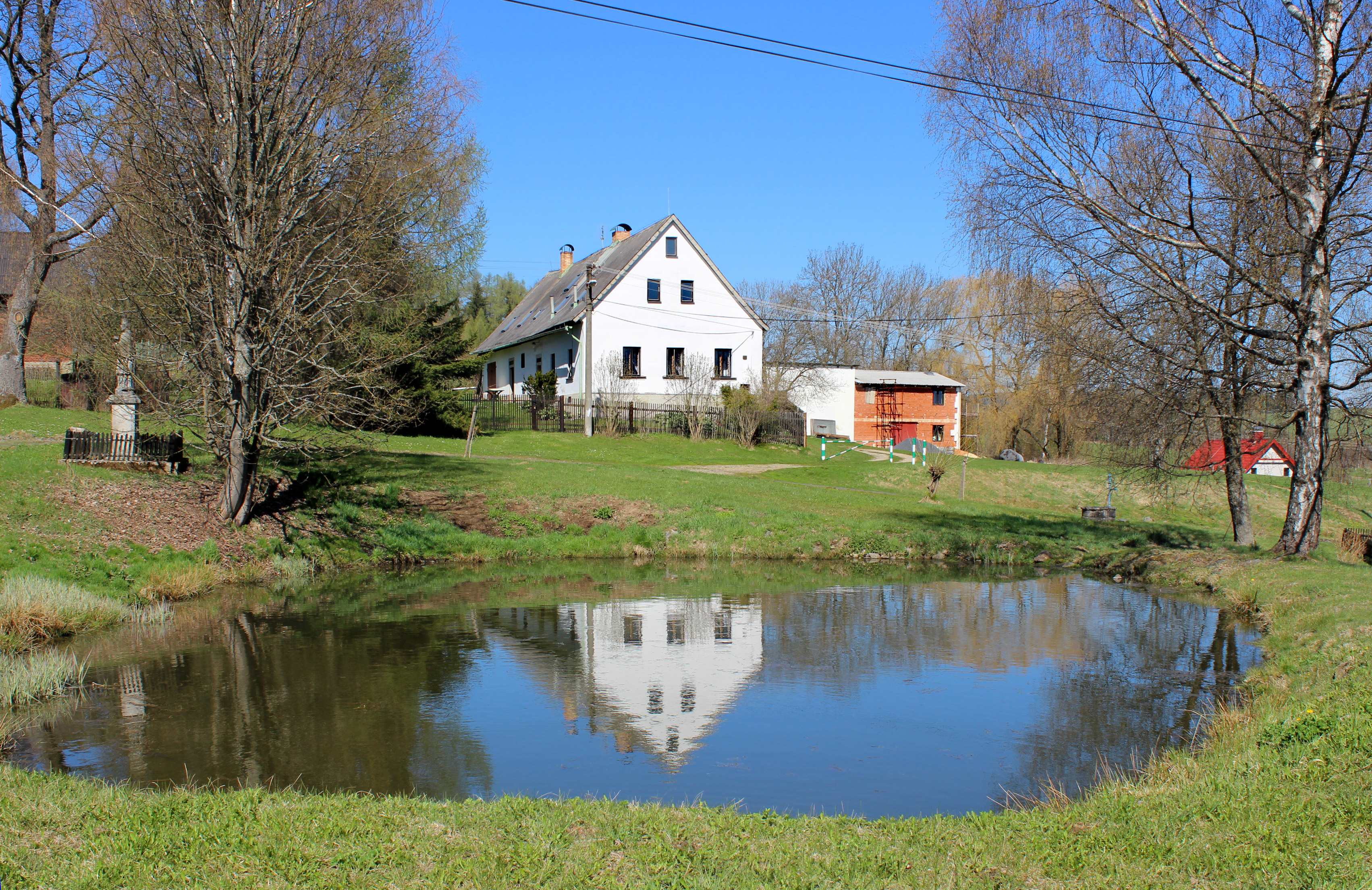 Small common pond in Číhaná, part of Teplá, Czech Republic